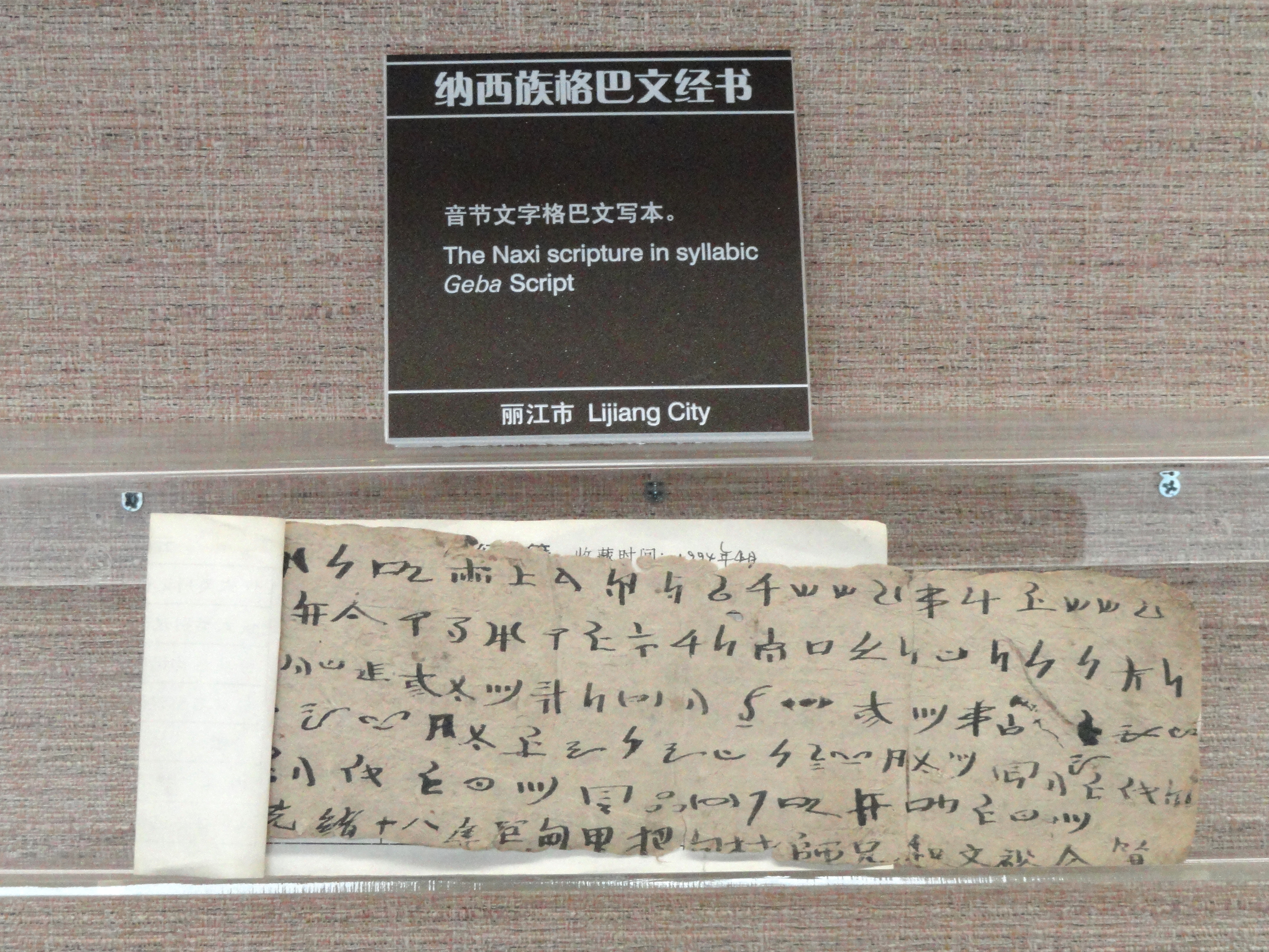 Naxi scripture in syllabic Geba script. Manuscripts / writing systems in the Yunnan Nationalities Museum, Kunming, Yunnan, China.